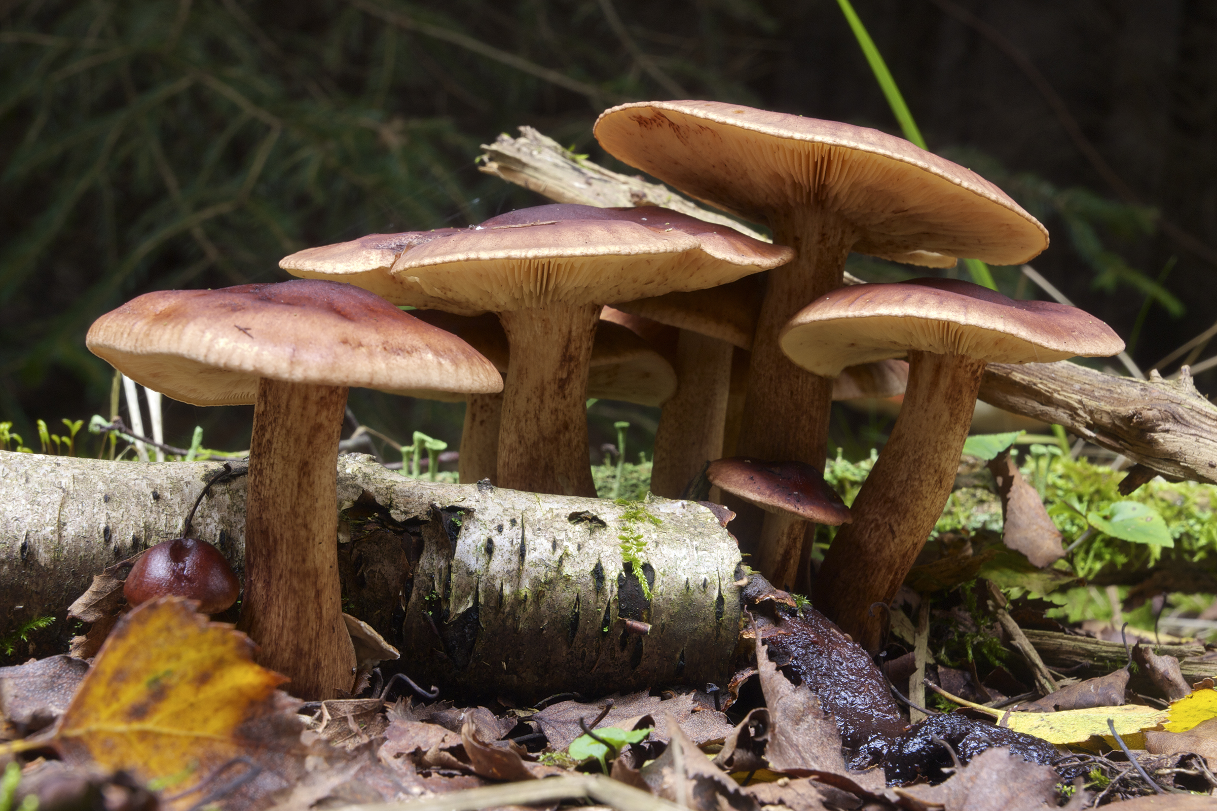 Birch Knight (Tricholoma fulvum), Falkenau, Germany